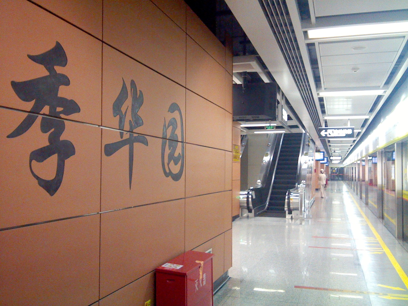 季华园车站月台（魁奇路方向）